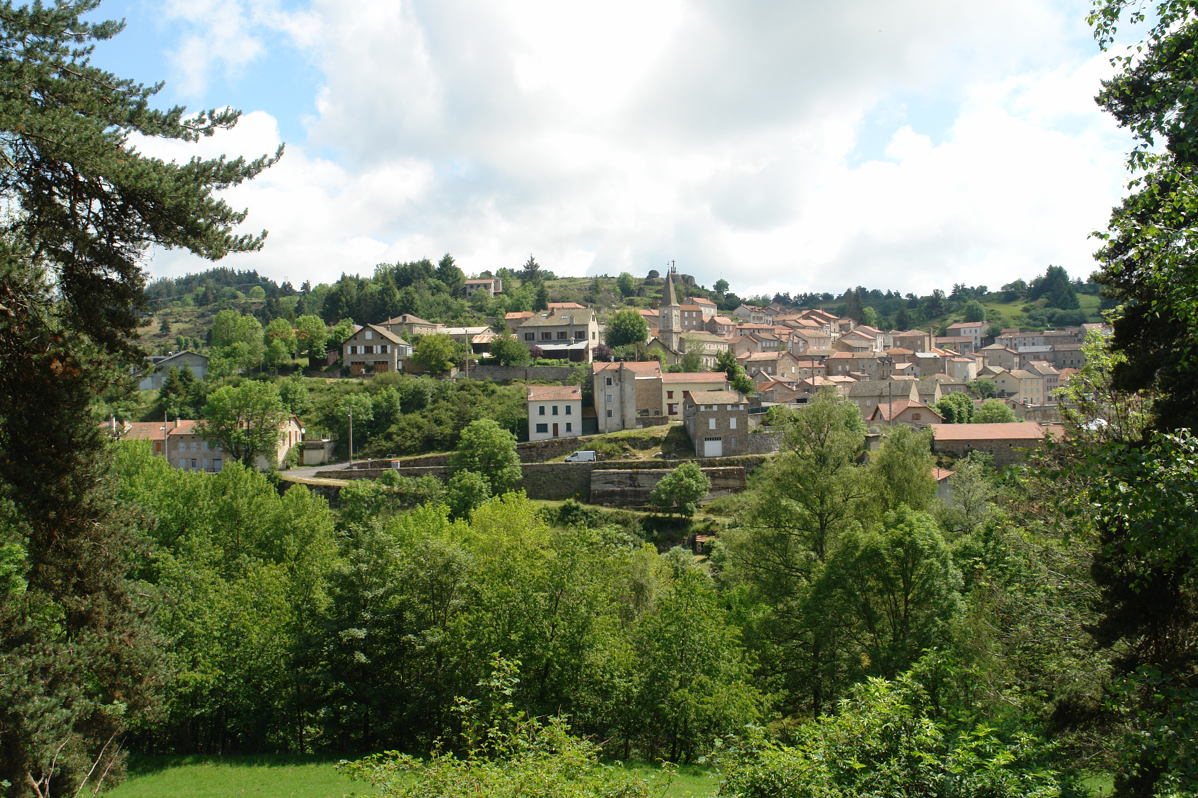 Map it: Google Earth | Street | Satellite | Hybrid | Nautical